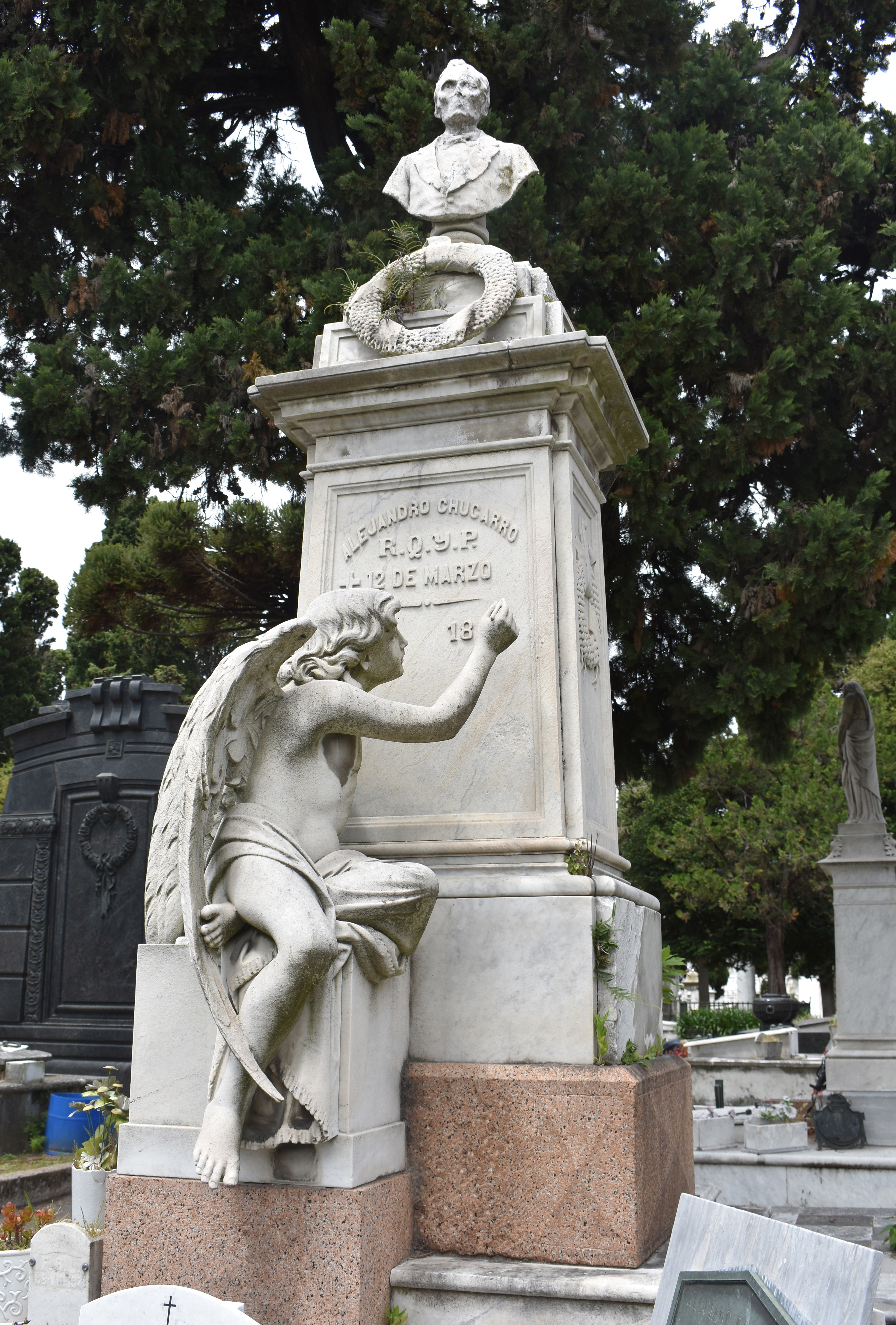 Funerary sculpture of angel writing the date on the monument for Alejandro Chucarro